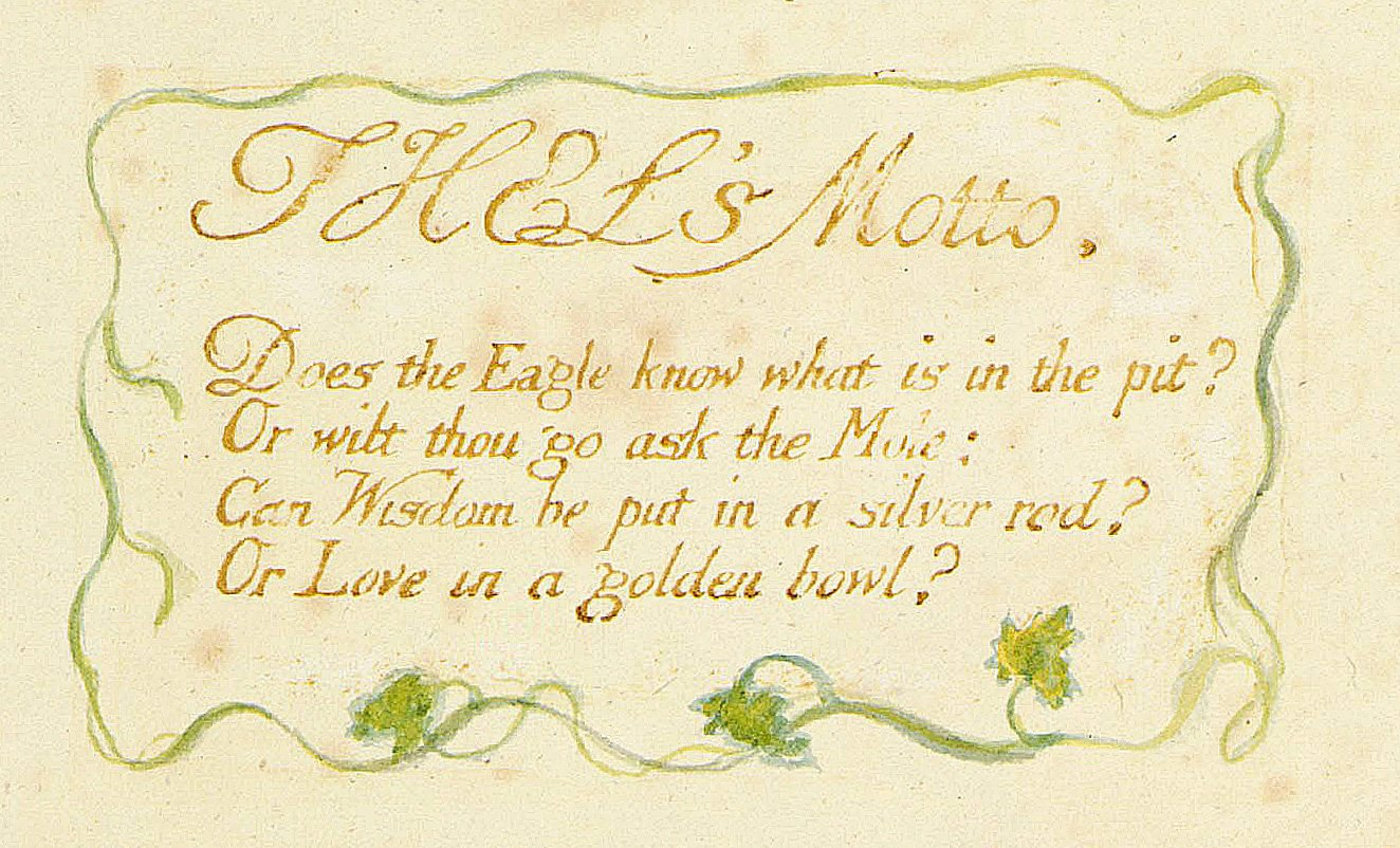 Plate from The Book of Thel, copy F, in the collection of the Library of Congress. Leaf size: 37.1 x 26.9 cm.